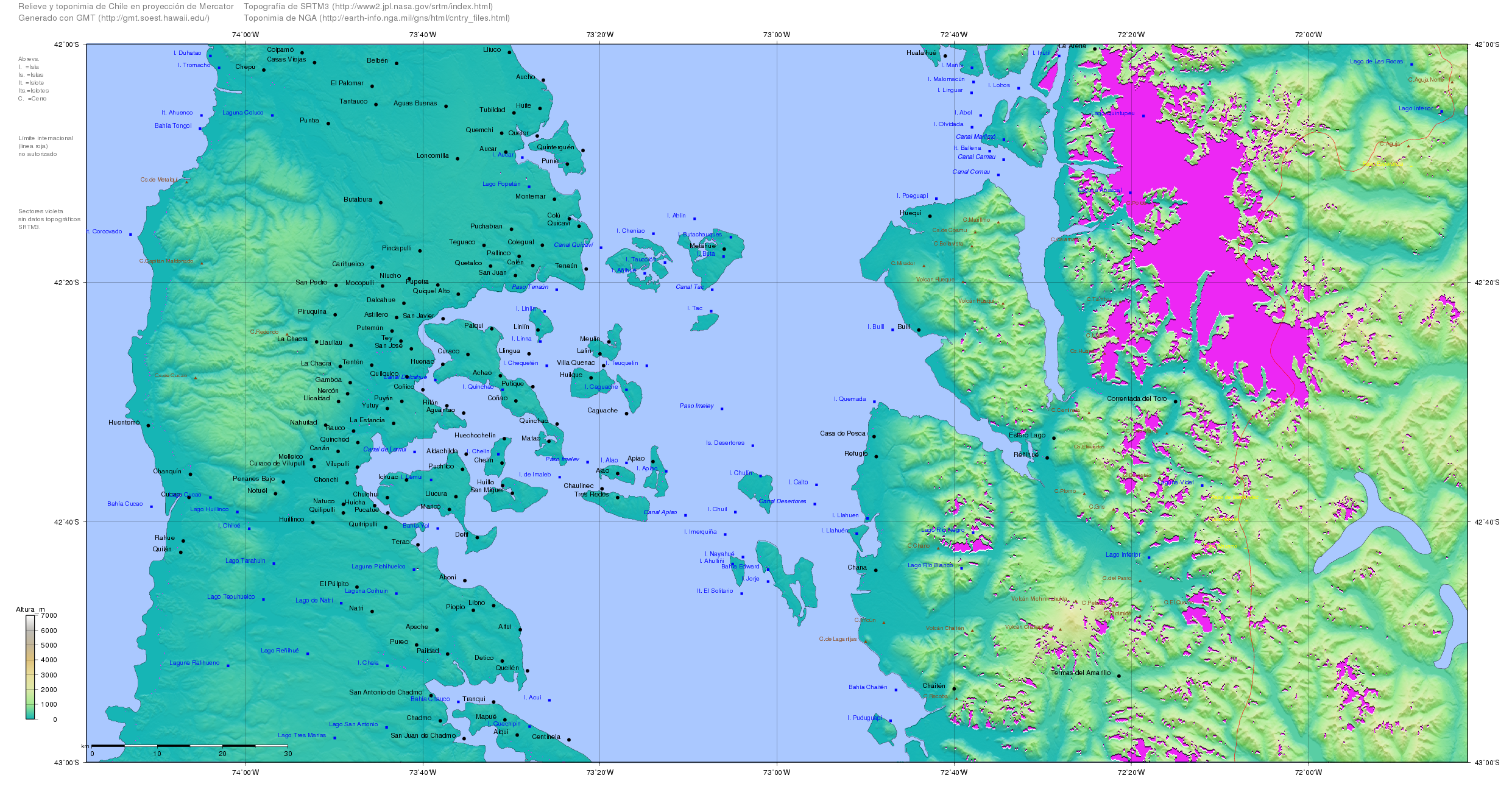 Map of Chile generated with GMT ( topography from SRTM ftp://e0srp01u.ecs.nasa.gov/srtm/version2/SRTM3/ and toponymy from